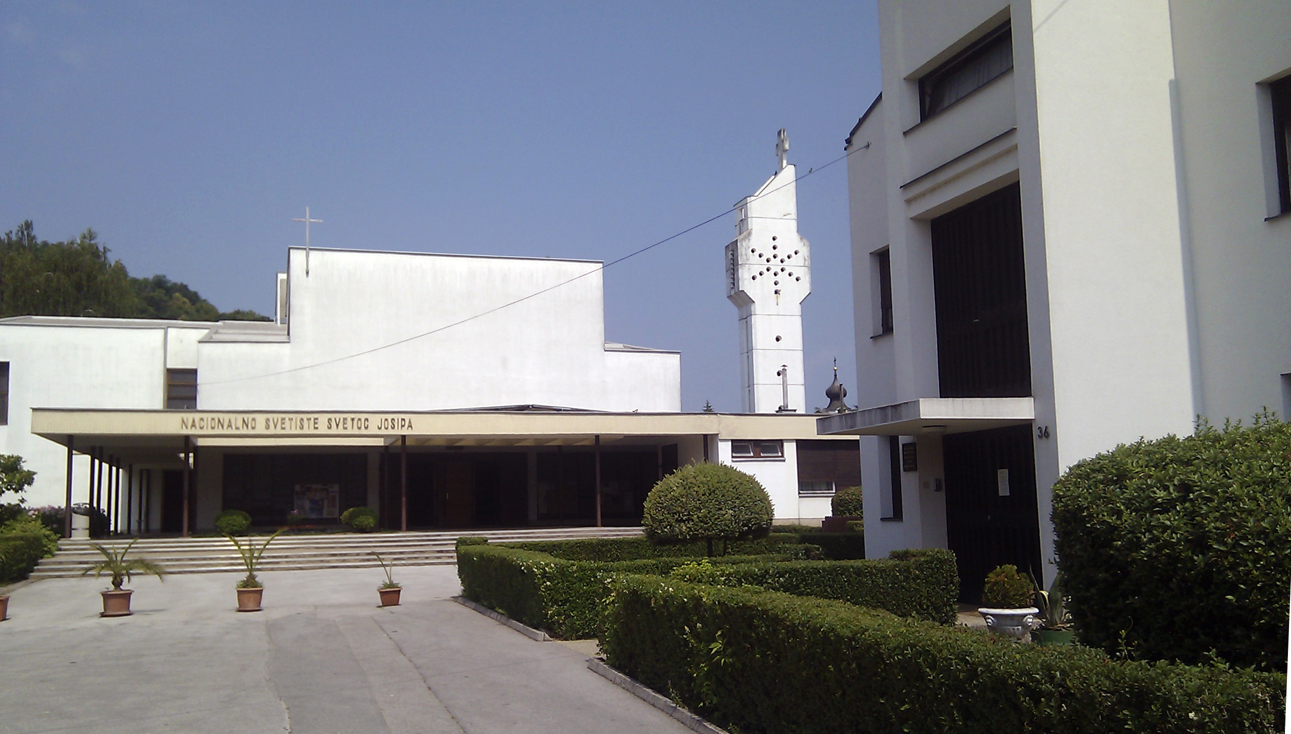 picture of church saint joseph in karlovac